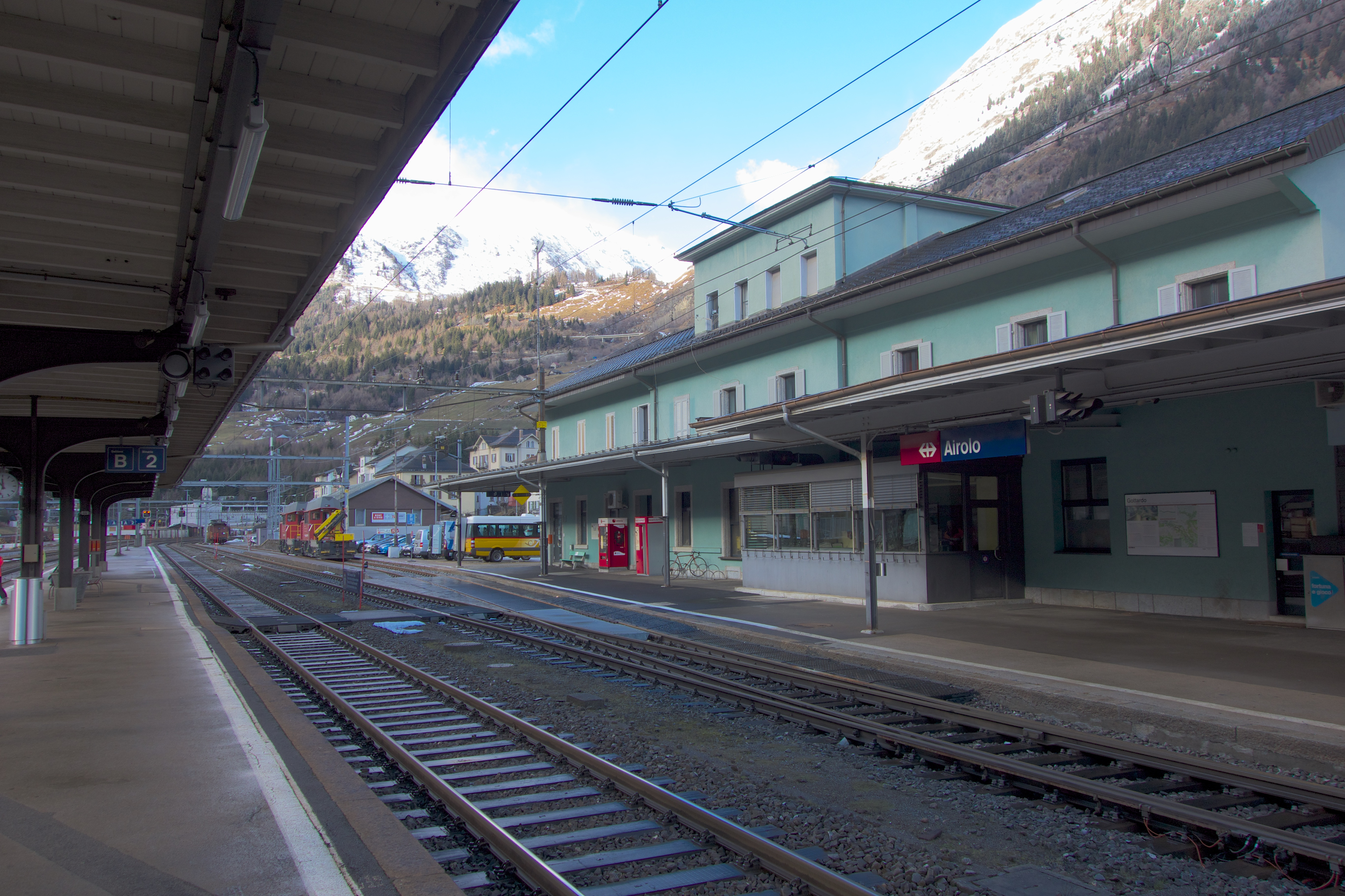 Station building seen from platform 2. In the back, road to Gotthard Pass.